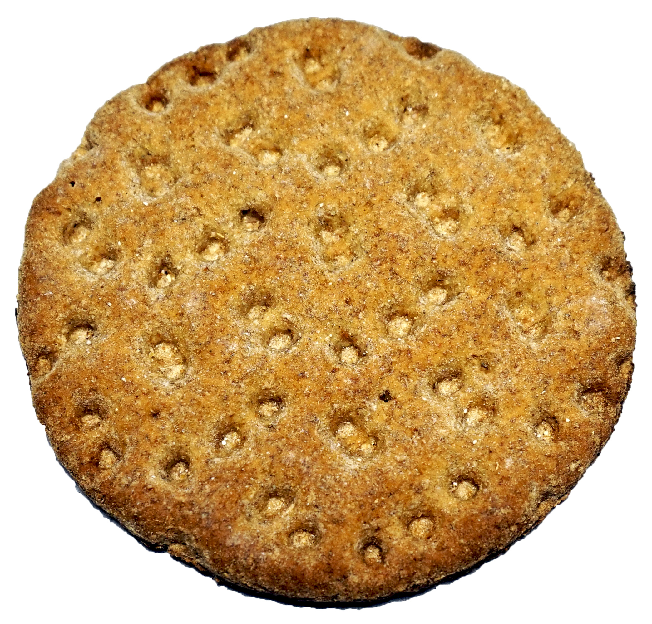 A rounded crisp bread by Vaasan Oy.